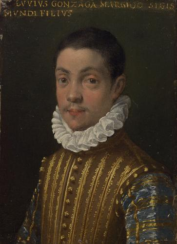 Portrait of Fulvio Gonzaga (1558-1615)